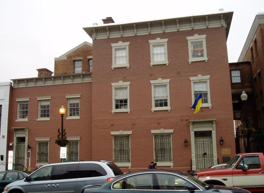 Embassy of Ukraine, Washington, D.C.